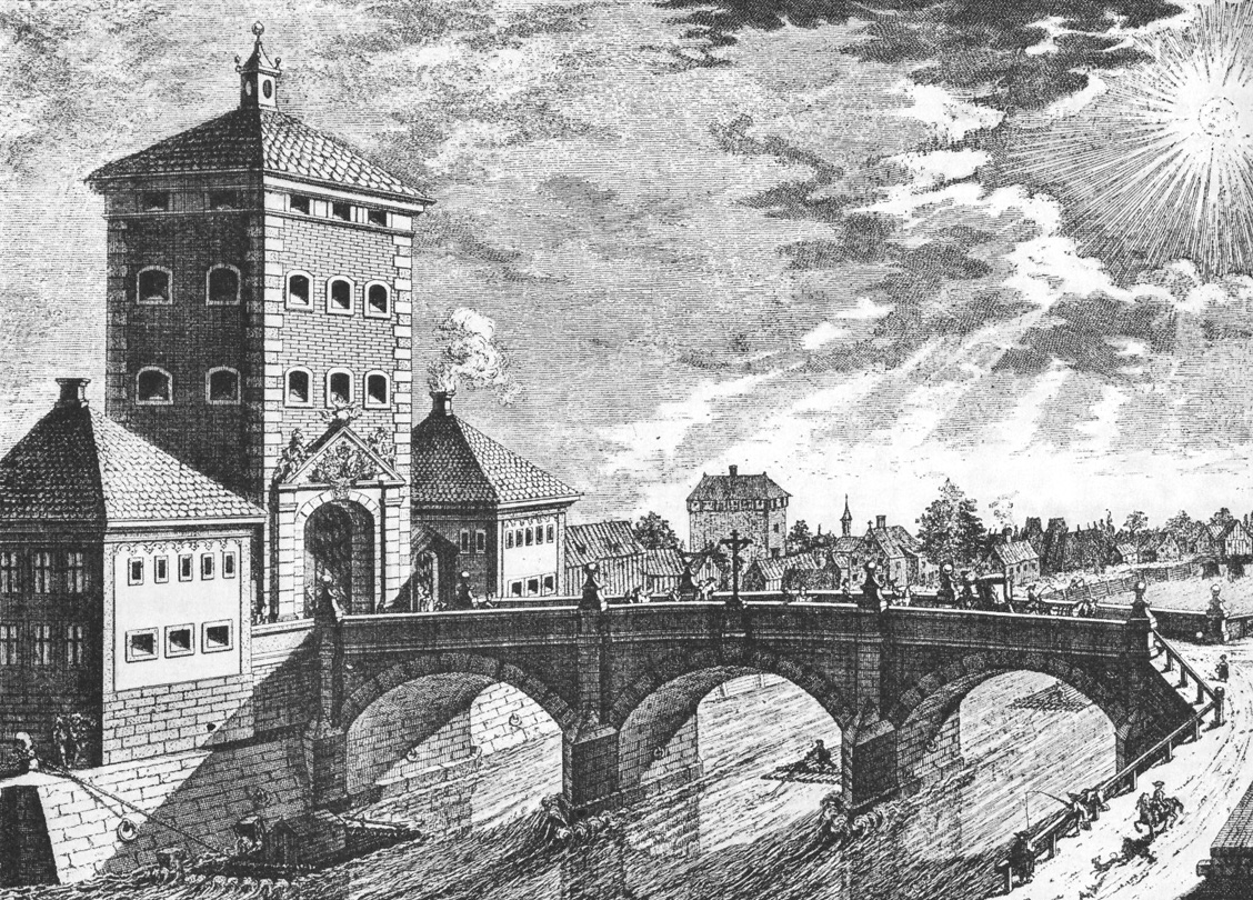 Roter Turm (Red Tower) und Ludwigsbrücke in Munich